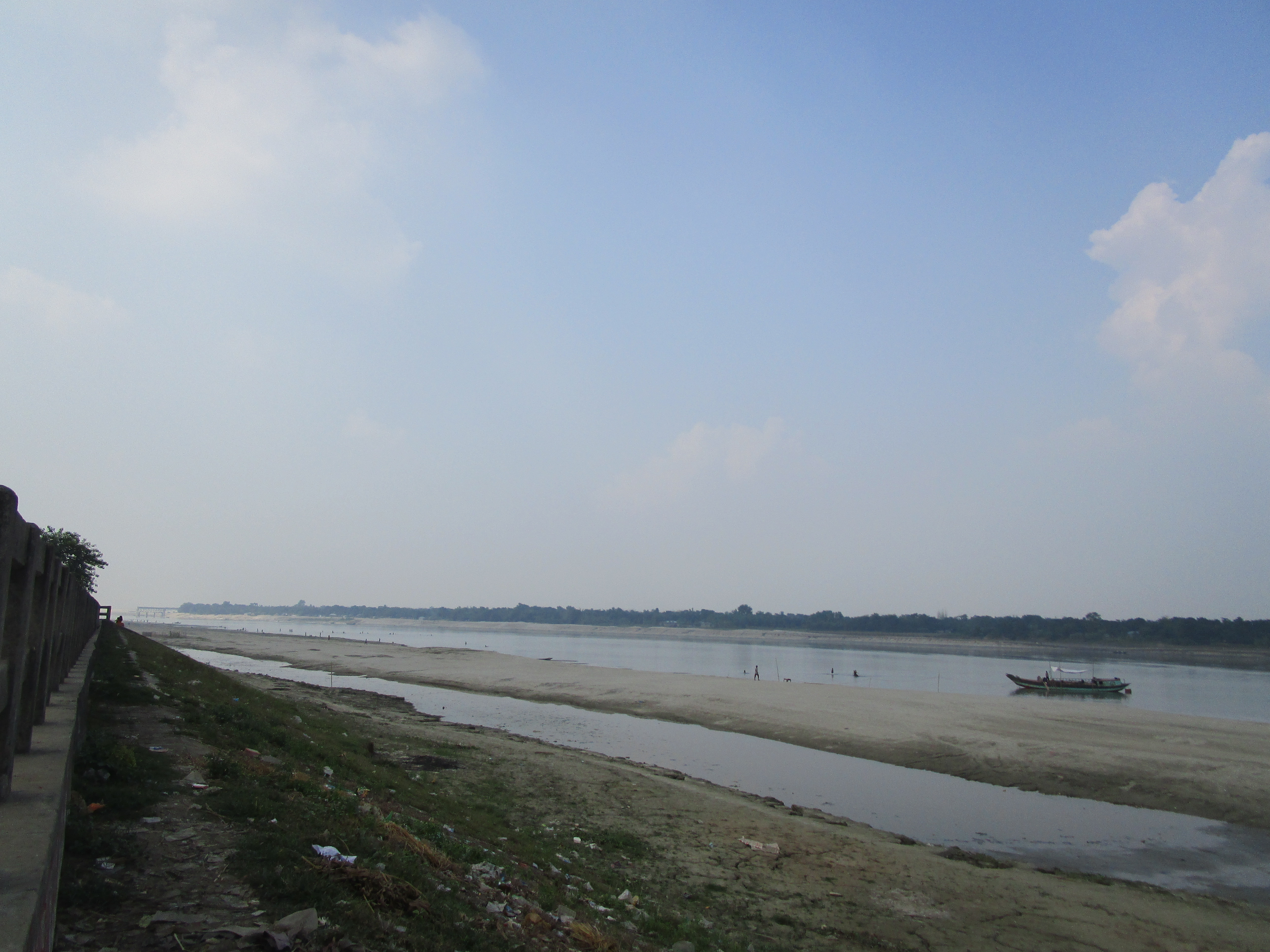 The Gorai River at Kushtia Borobazar ghat